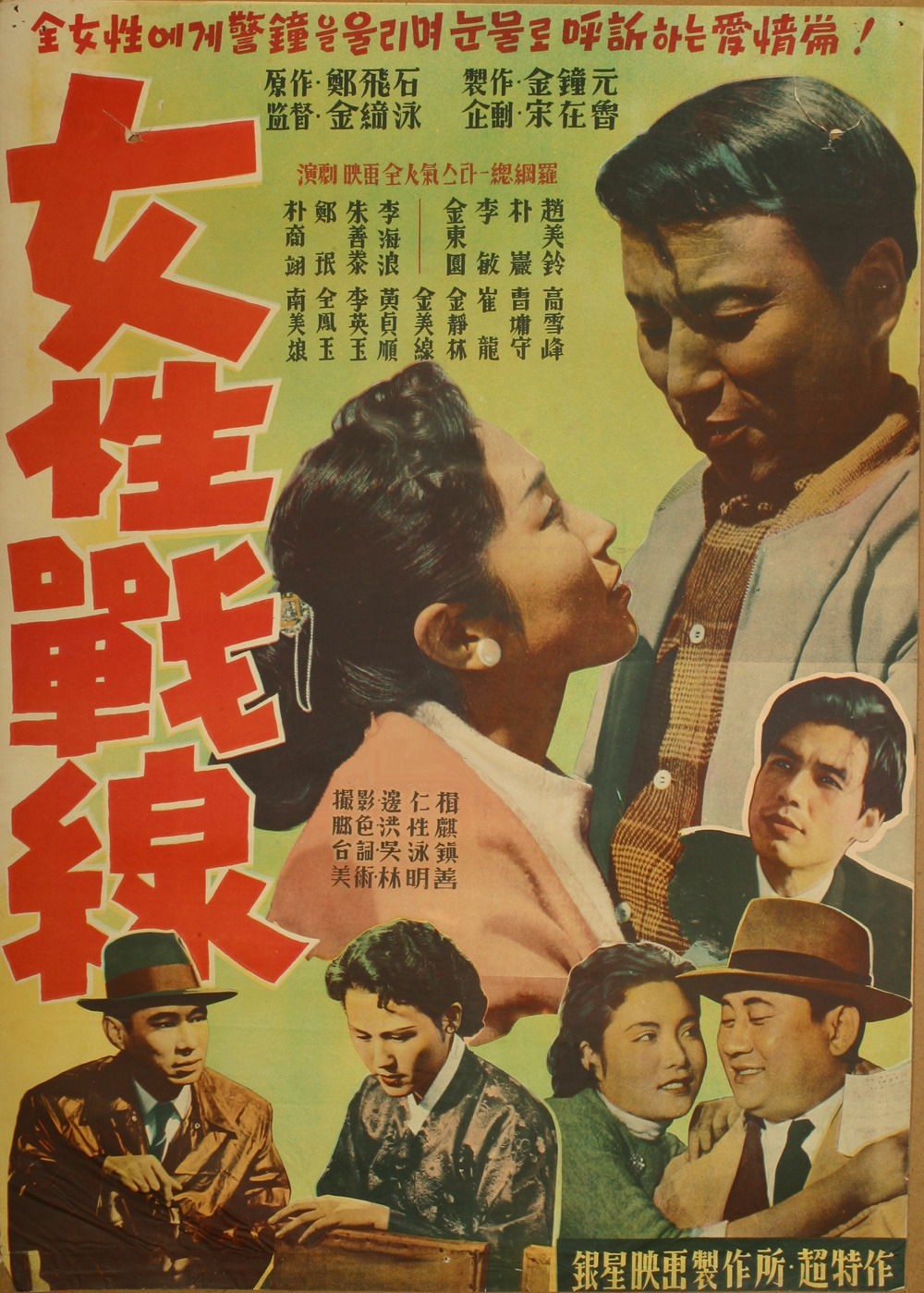 1957 Korean movie poster for 1957 Korean film A Woman's War (여성전선 - Yeoseon jeonseon).